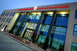 UCB BUILDING